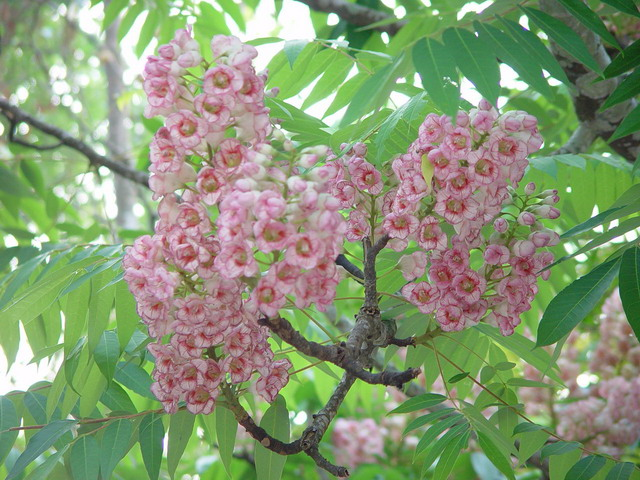 Bretschneidera sinensis flowers (Thai: ชมพูภูคา)